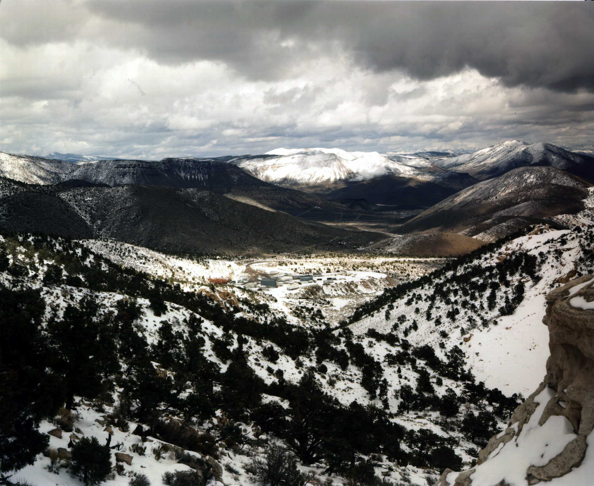 Landscape of the Nevada Test Site. Winter in Rainier Mesa.